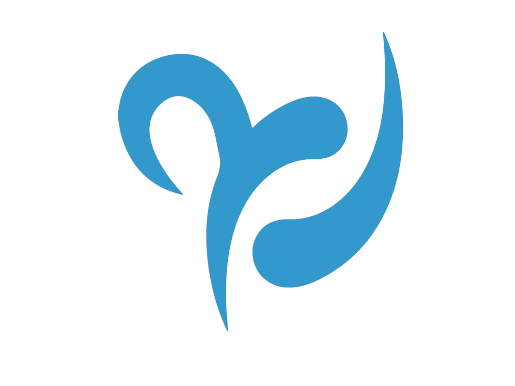 paramarsh